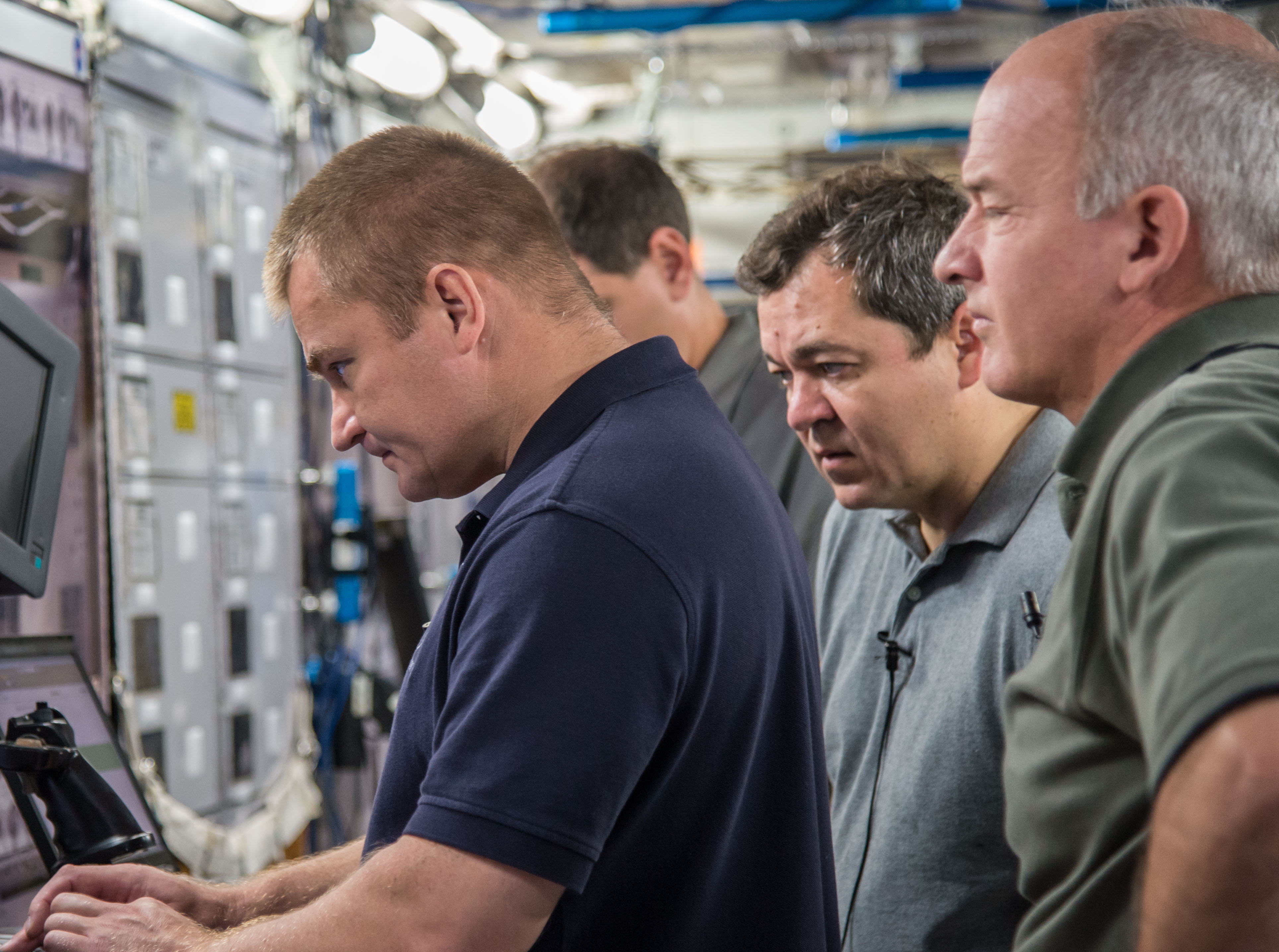 NASA astronaut Jeff Williams (right), Expedition 47 flight engineer and Expedition 48 commander; Russian cosmonaut Sergei Volkov (mostly obscured in background), Expedition 45/46 flight engineer; Russian cosmonauts Alexey Ovchinin (left) and Oleg Skripochka, both Expedition 47/48 flight engineers, participate in an emergency scenarios training session in an International Space Station mock-up/trainer in the Space Vehicle Mock-up Facility at NASA's Johnson Space Center.